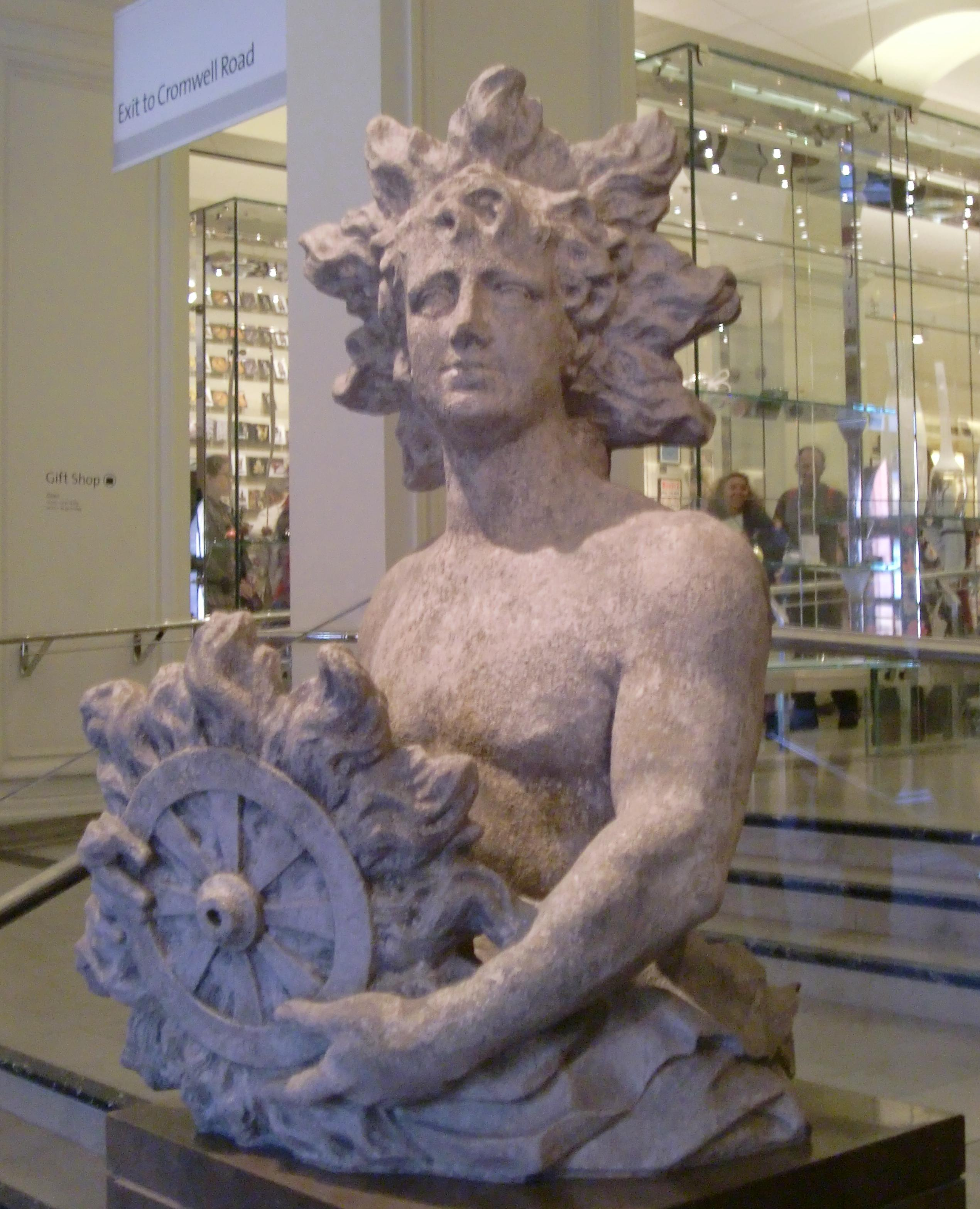 With thanks to the V&A for allowing photography